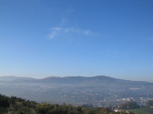 Camlough Mountain from high above Newry. Taken above Craigmore Viaduct.